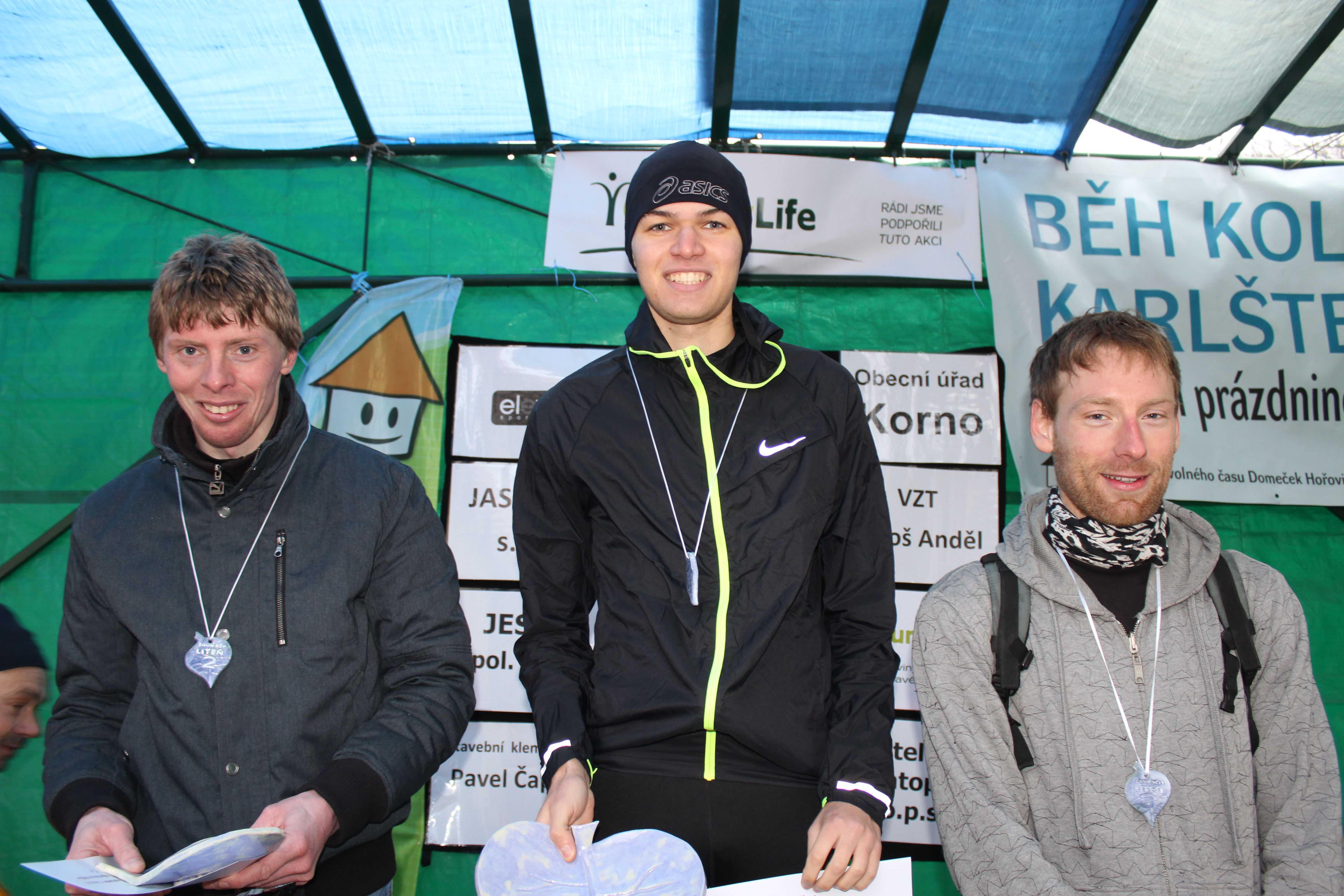 Zimní běh Litní